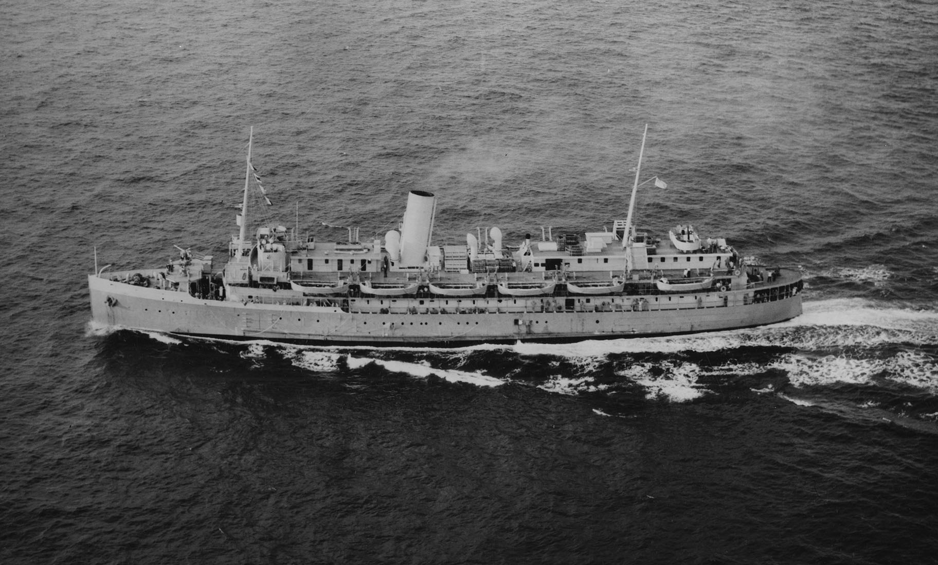 United States Army Transport Cuba off the southern coast of the United states as photographed from a ZP-22 blimp operating from Naval Air Station Houma in Louisiana.